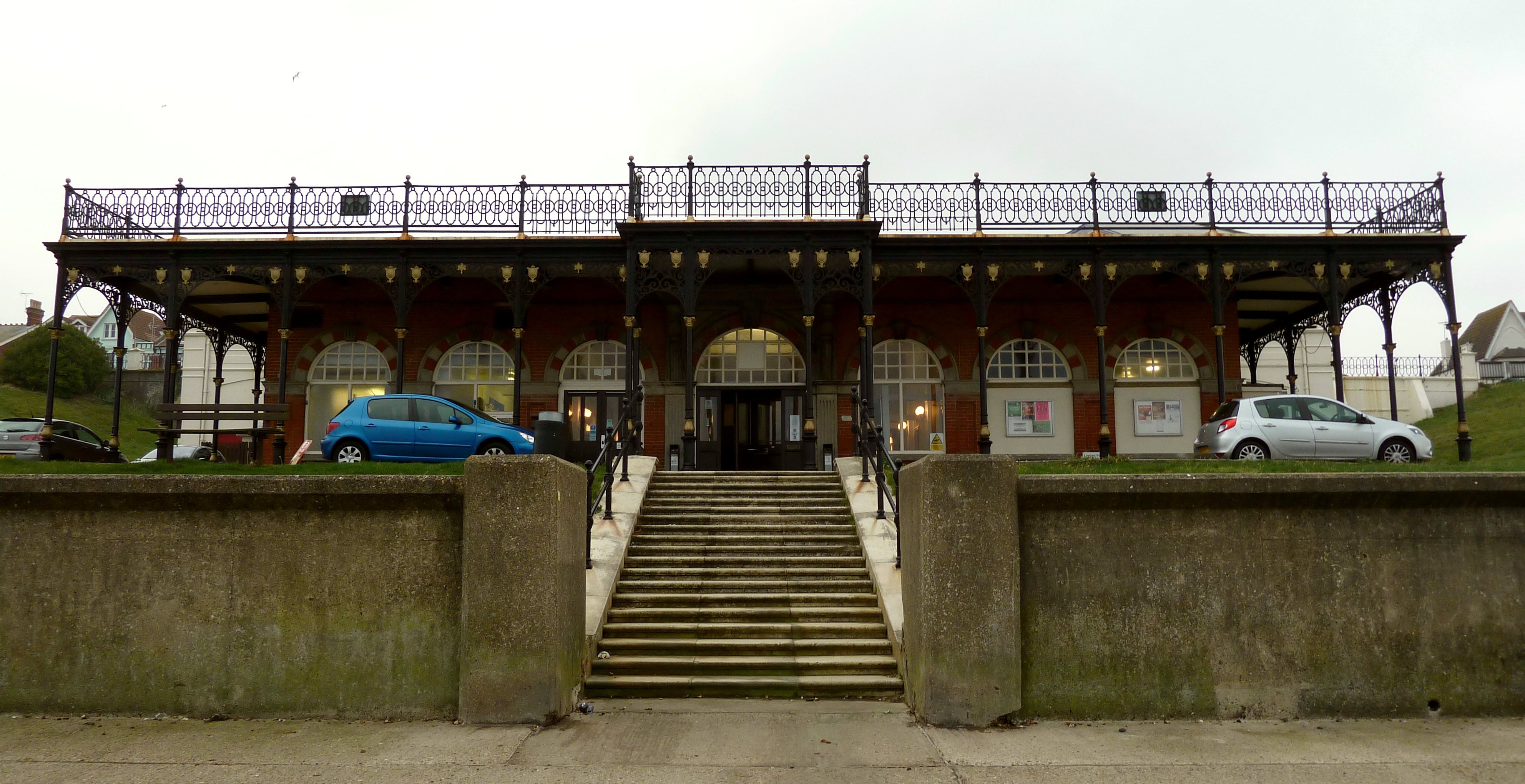 Kings Hall, Herne Bay, Kent England. Looking south at front elevation of building.